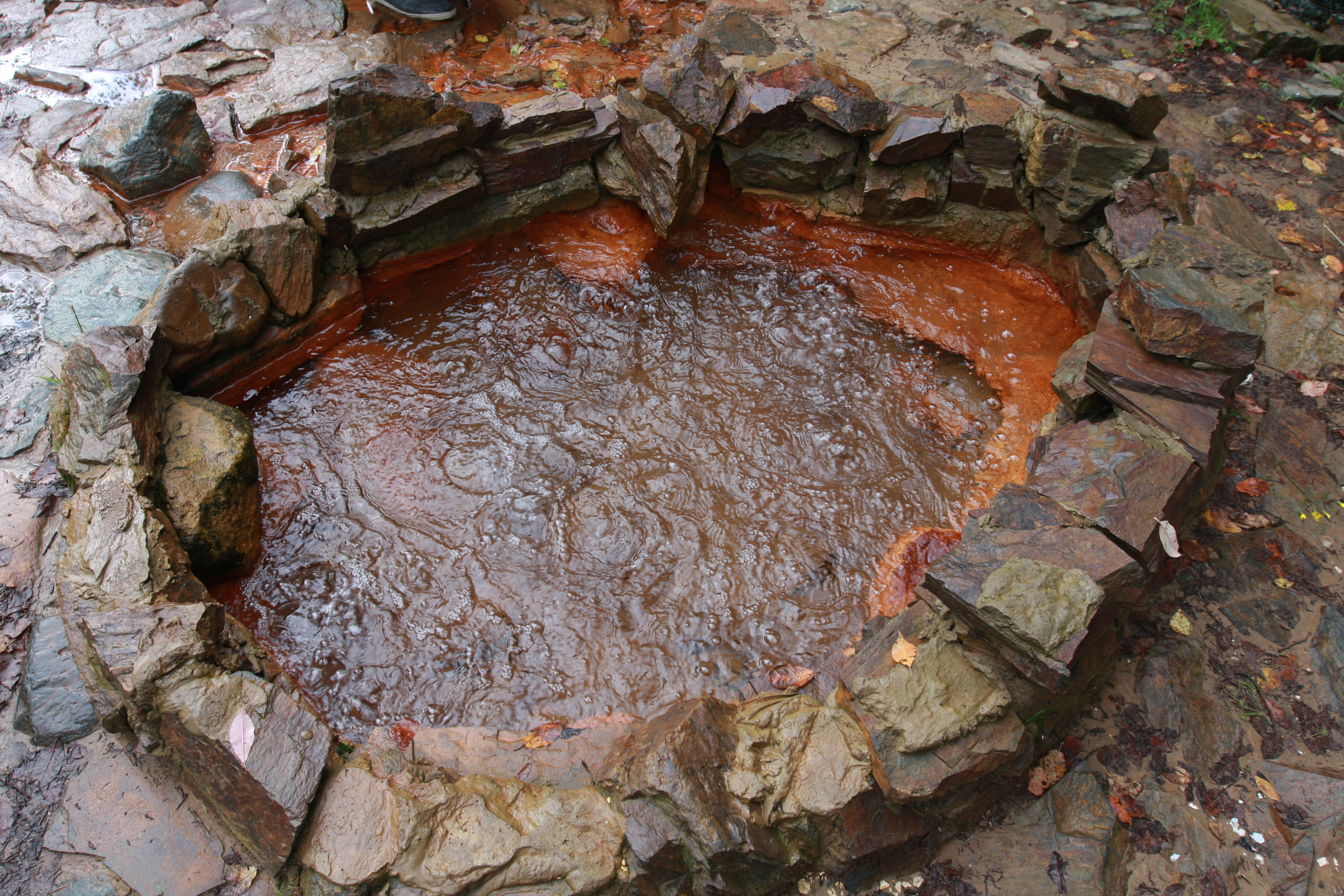 "Narzan" natural water spring in the woods near Kislavodsk, North Caucasus, Russian Federation, July 20th, 2014